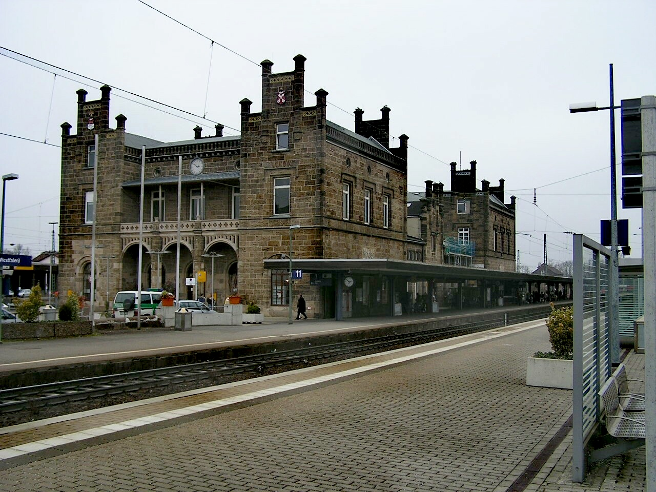 Railwaystation Minden (Westf.), Germany.